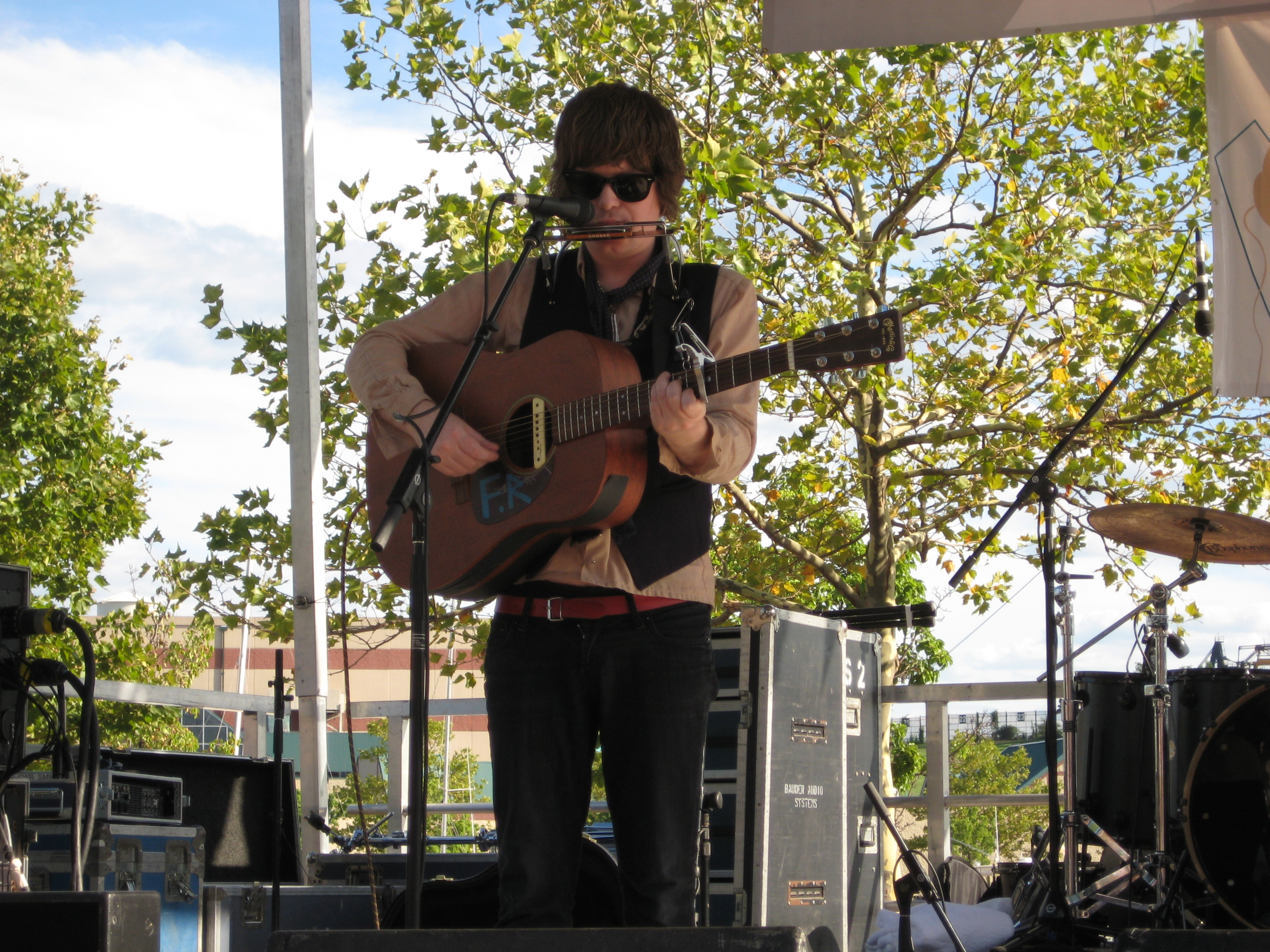 I took the picture at the Xponential Music Festival in 2007.